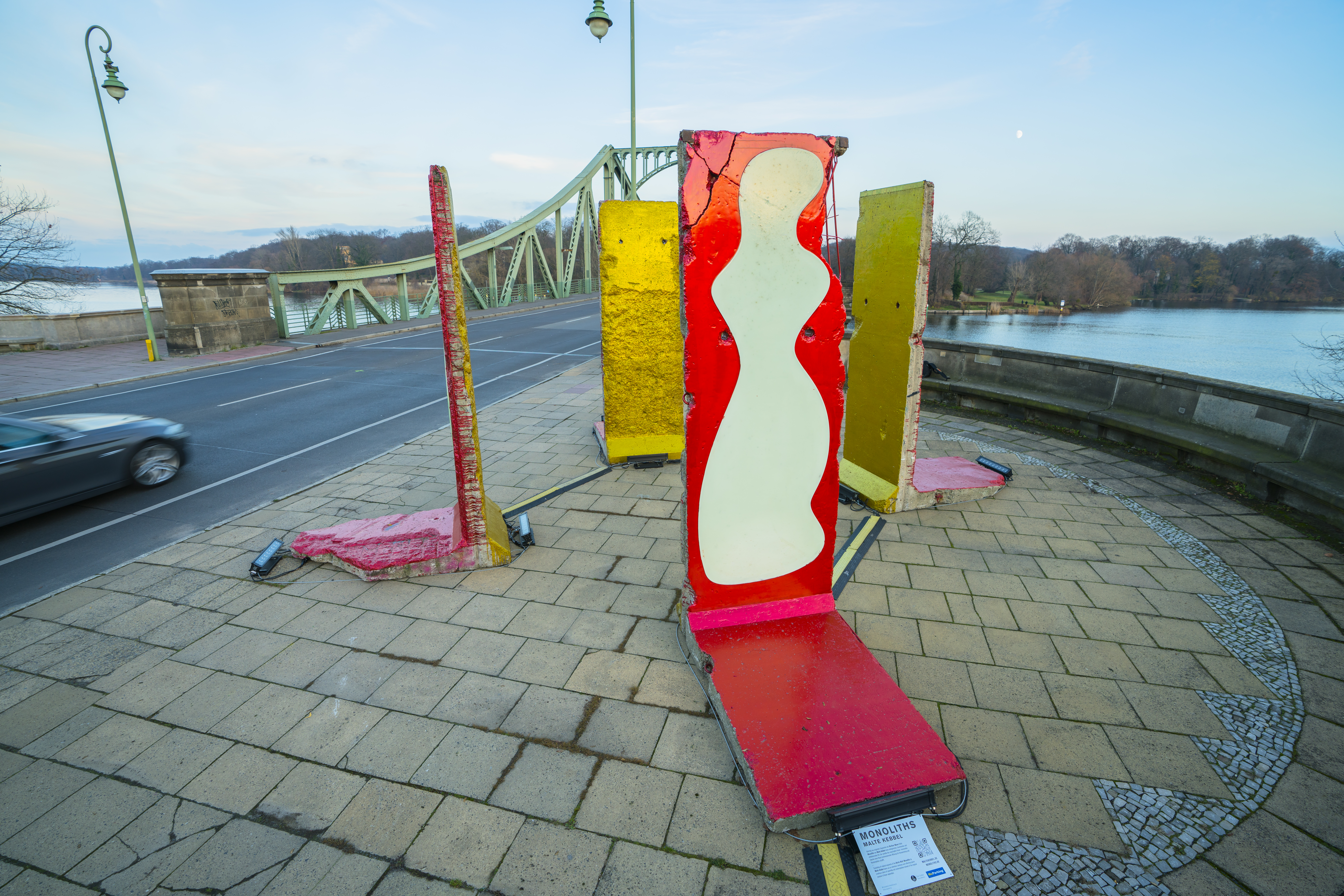 The installation Monoliths by Malte Kebbel consists of original segments of the Berlin Wall, those constitute a non-limited, luminous and reflective place, which instead of its original linear-separating purpose now creates a space of luminous effect for gathering and contemplation. Exhibition: Potsdamer Licht Spektakel 2017 Location: Glienicker Bridge, Potsdam, 2017